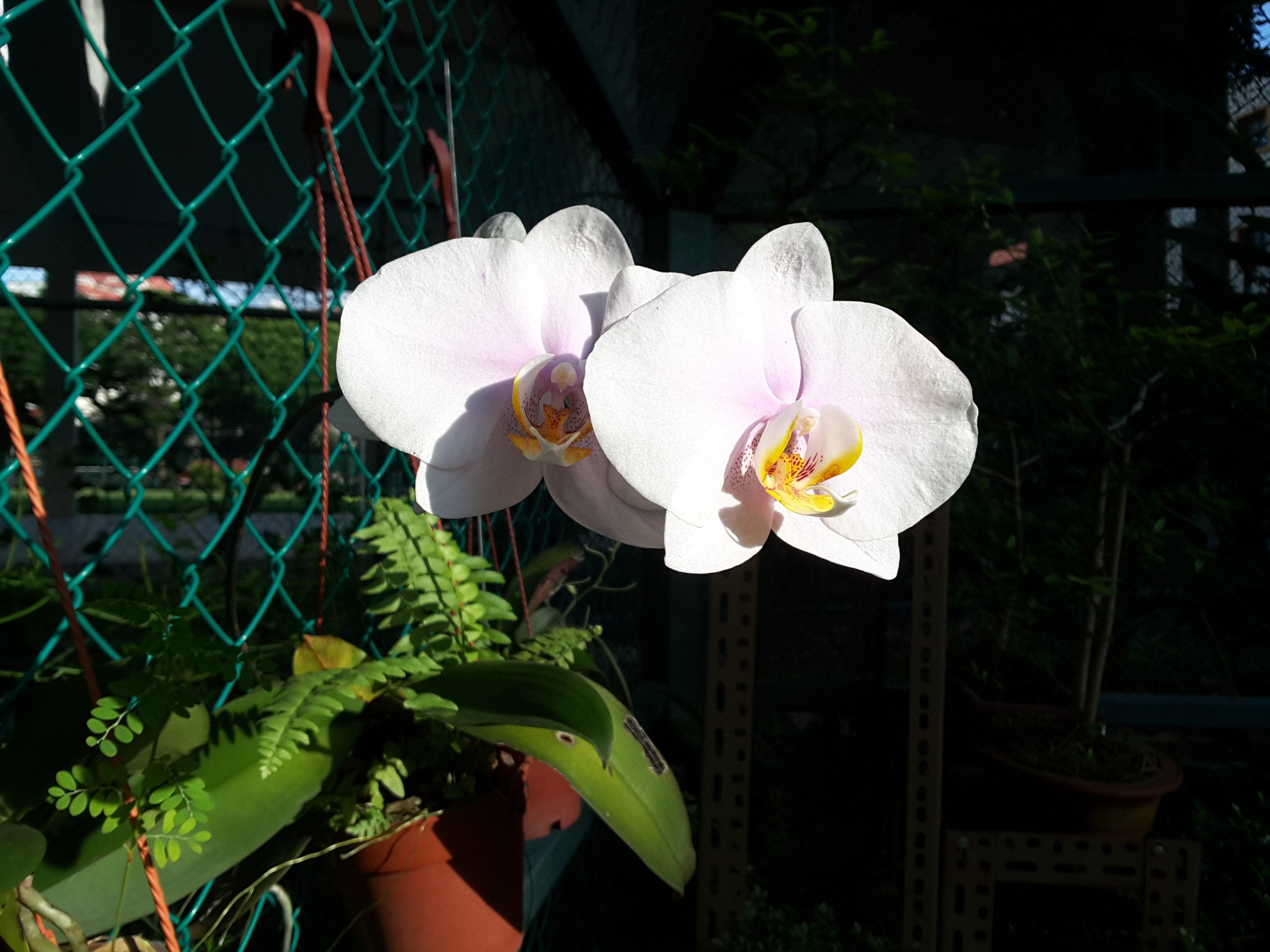 Planting orchid in Singapore.